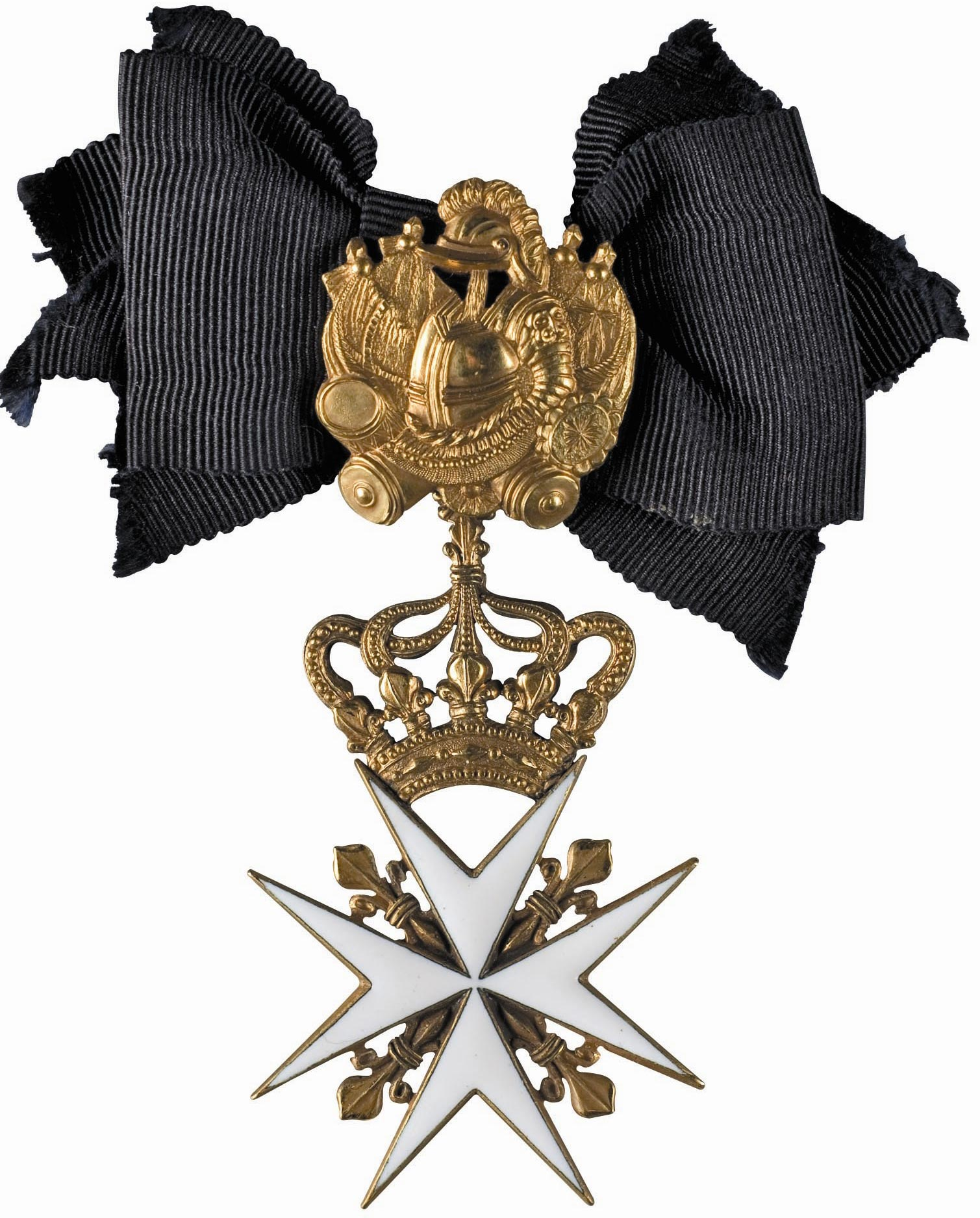 Cross of Order St. John of Jerusalem (Russian Empire)